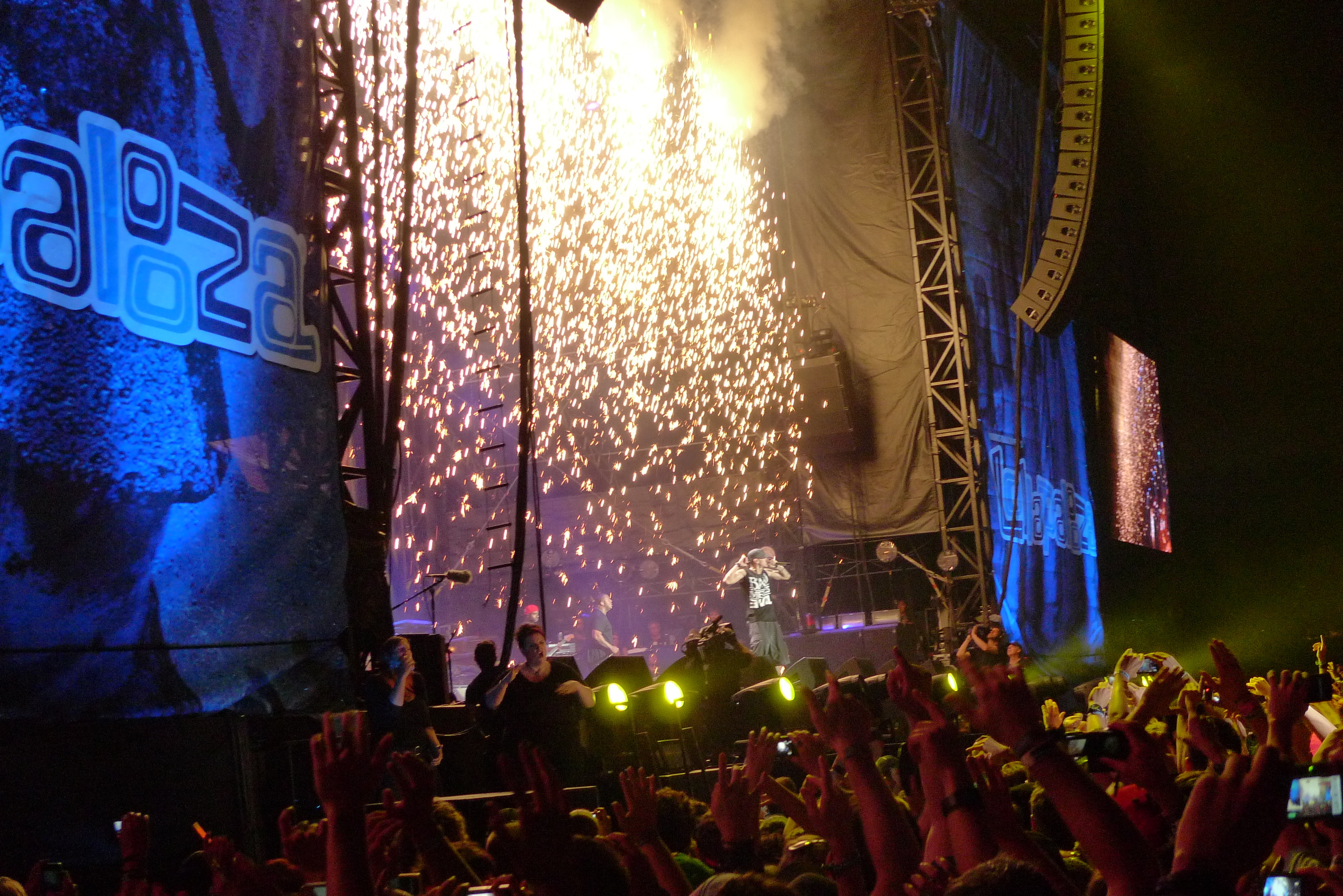 Eminem performing at the 2011 Lollapalooza festival.